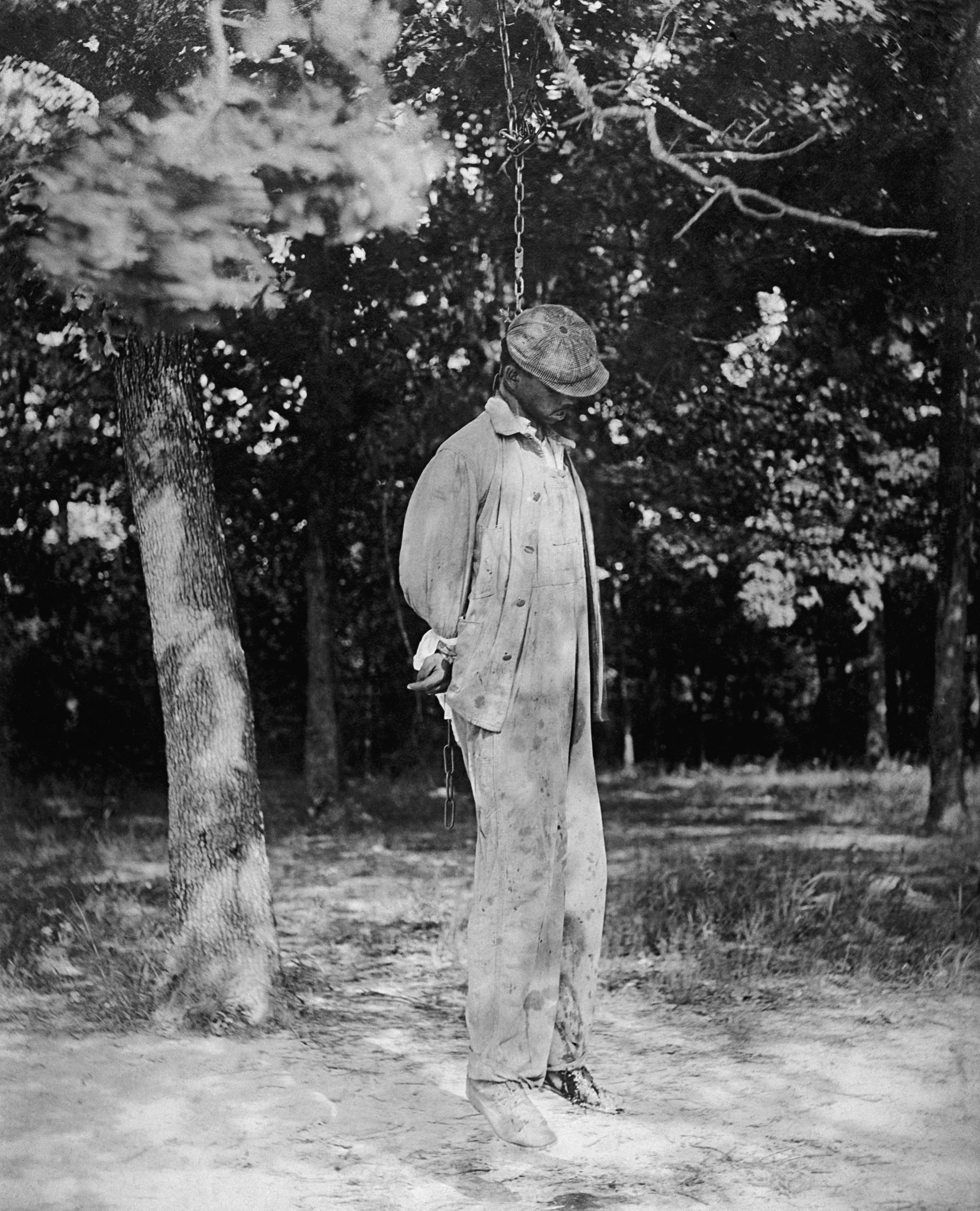 A man lynched from a tree. Face partially concealed by angle and headgear.